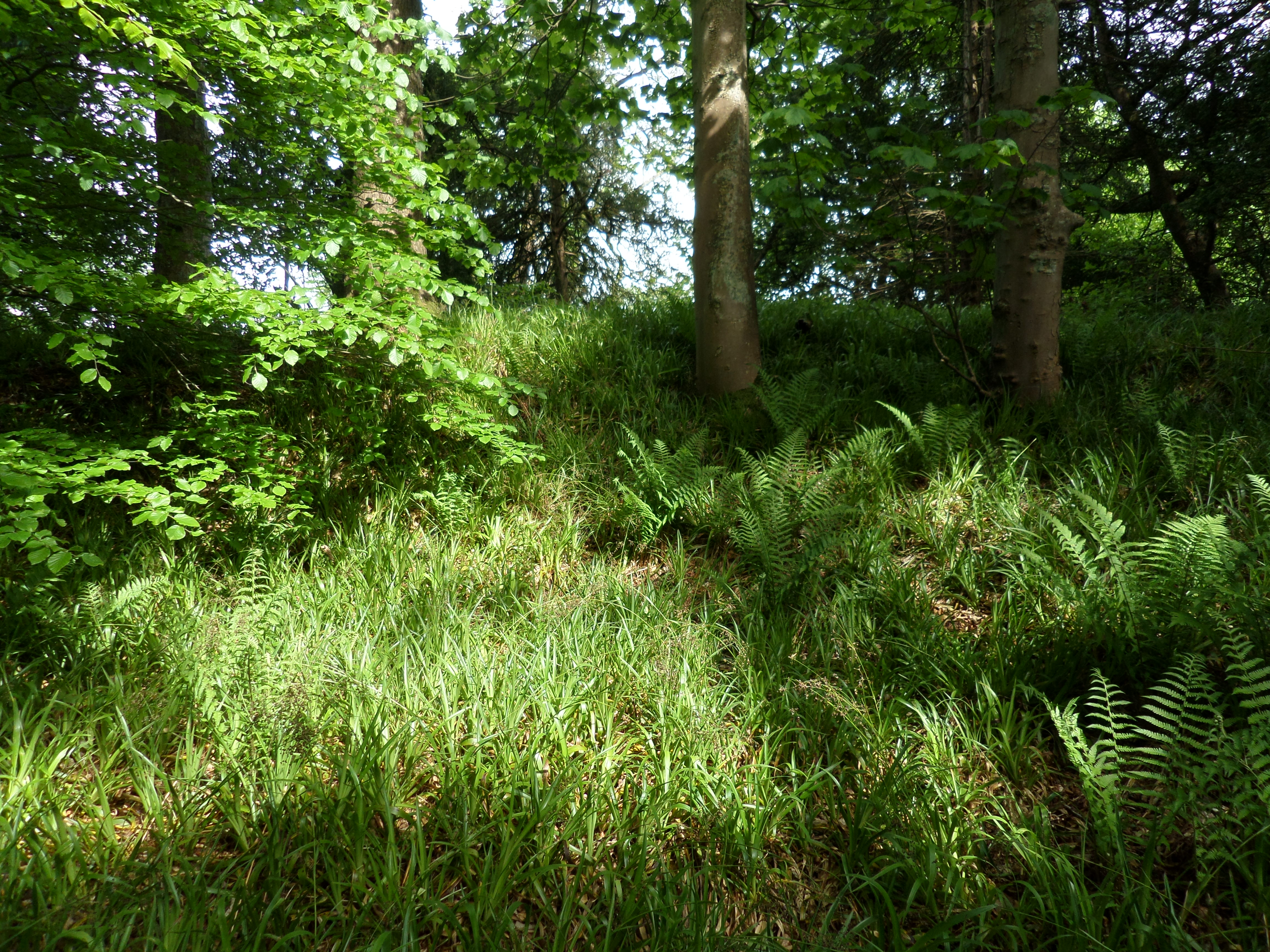 Alloway Motte and Court Hill, Ayr, South Ayrshire, Scotland. Basin-shaped interior view. Located on the private Doonholm Estate. Once used by the Ayr Magistrates.